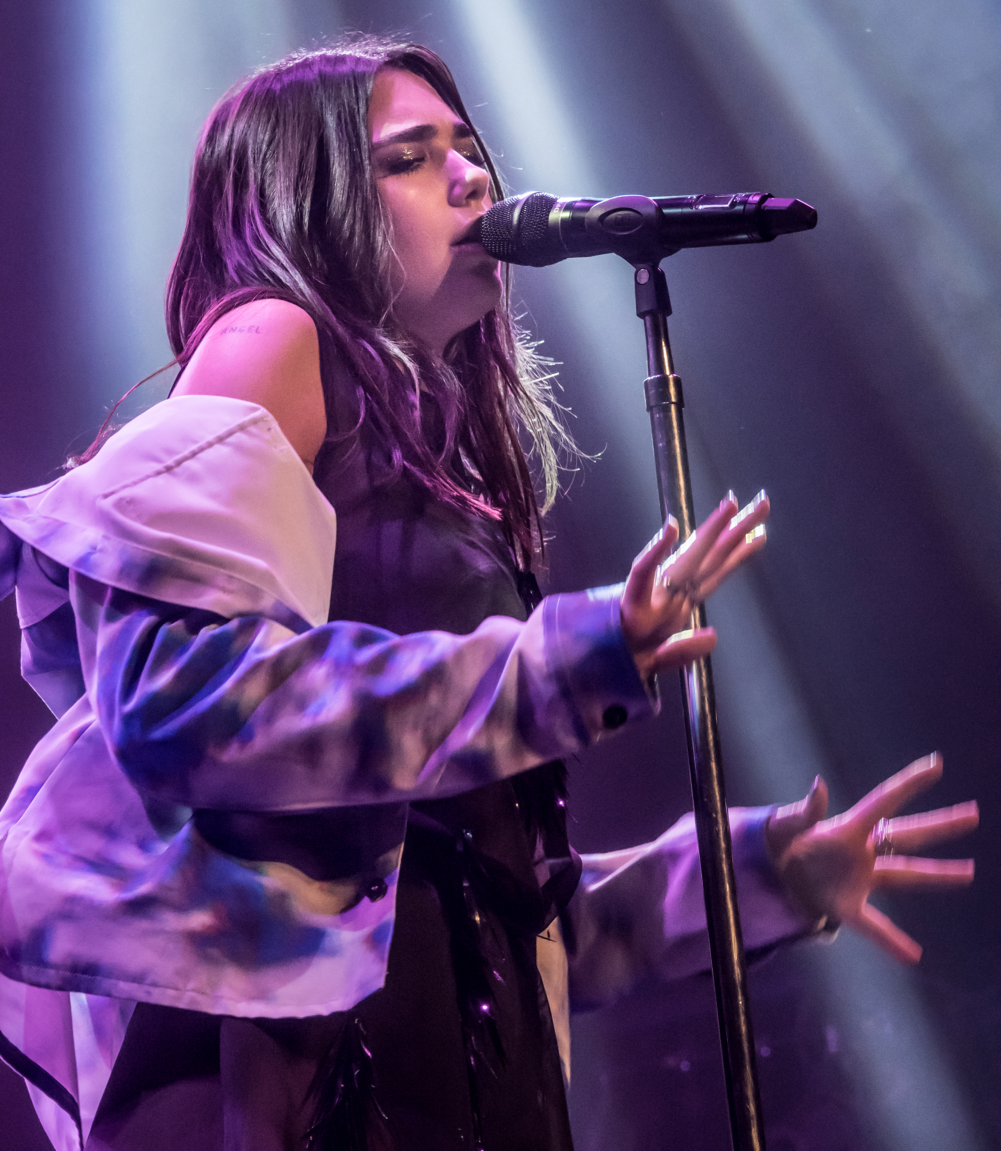 Dua Lipa performing live at The Belasco Theater in downtown Los Angeles, California, on Wednesday, March 15, 2017.